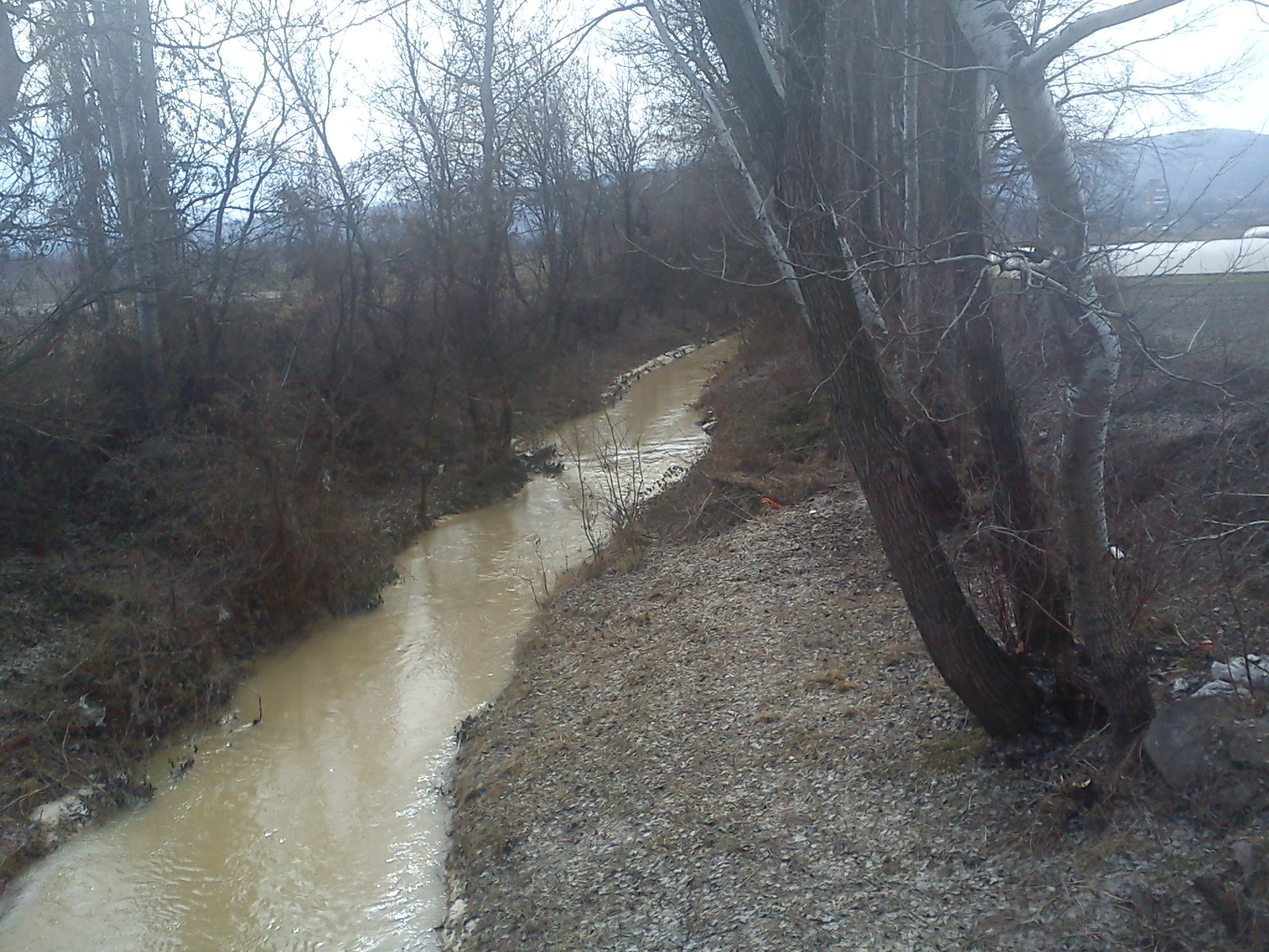 Markova Reka between Gorno and Dolno Lisiche Macedonia